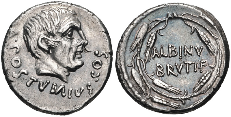 Moneyer issues of Imperatorial Rome. Albinus Bruti f. 48 BC. AR Denarius (17mm, 3.92 g, 6h). Rome mint. Bare head of the consul Aulus Postumius Albinus right / ALBINV BRVTI • F in two lines within wreath of grain ears. Crawford 450/3b; CRI 27; Sydenham 943a; Postumia 14. Good VF, bluish toning, die break on ear, banker’s mark below nose. From the Goldman Roman Imperatorial Collection.